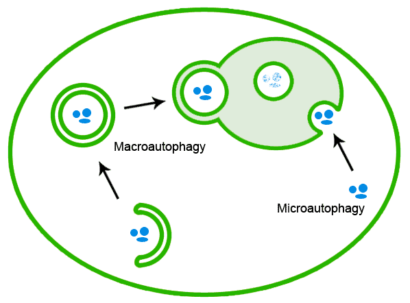 Comparison of the process of macroautophagy versus microautophagy.